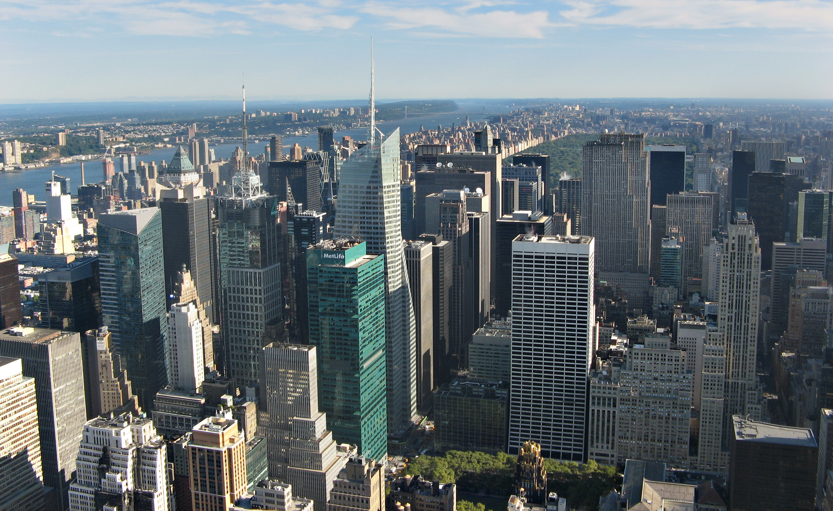 View of NYC from Empire state building